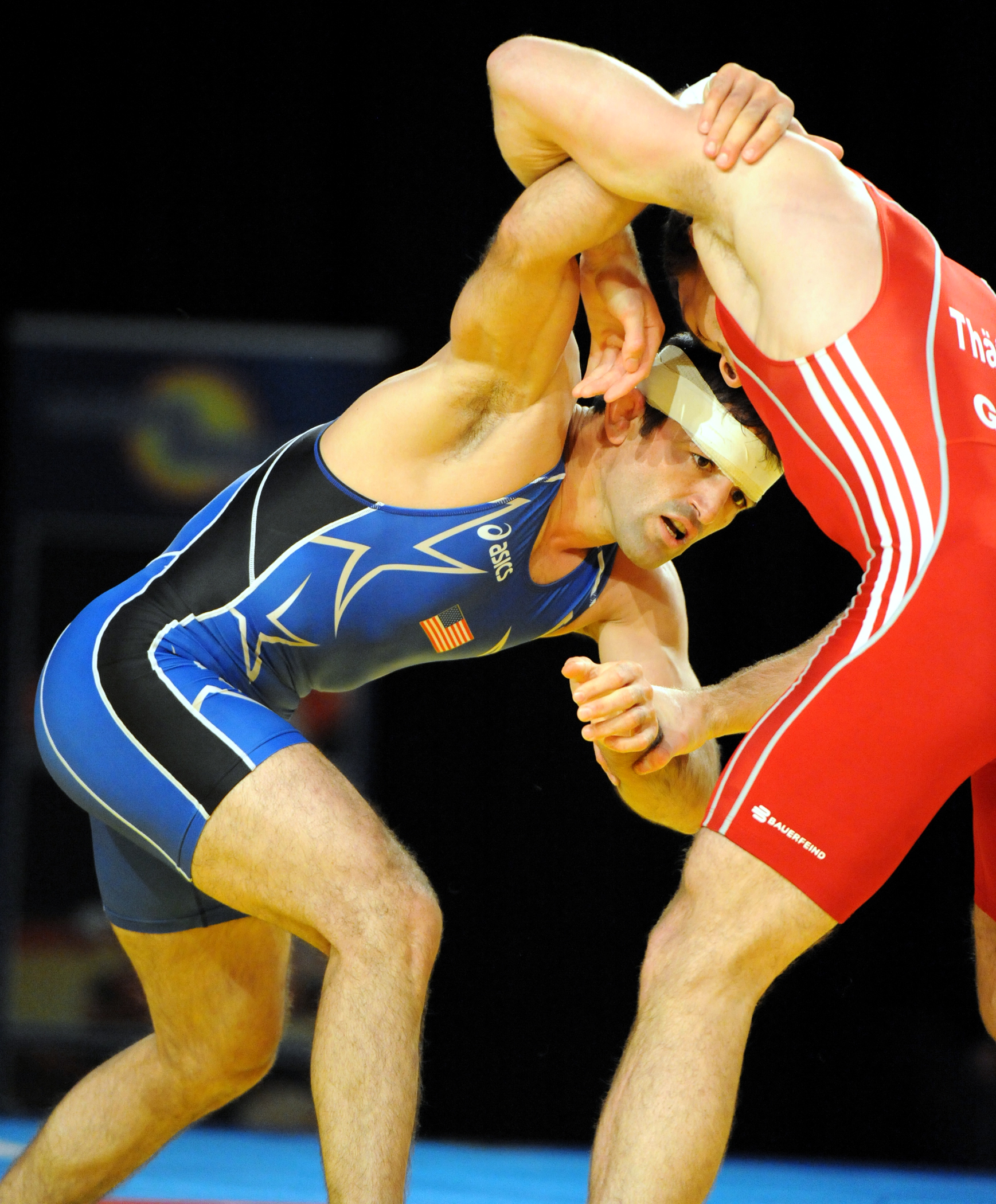 U.S. Army World Class Athlete Program wrestler Spc. Faruk Sahin (left) loses 2-0, 0-2, 1-0 to Germany's Markus Thatner in their second match of the 2009 World Wrestling Championships in Herning, Denmark, Sept. 27.